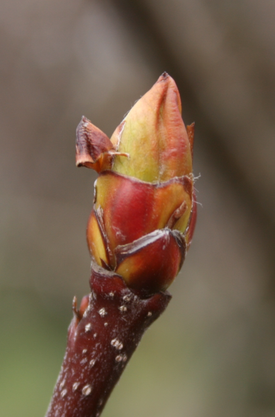 Sorbus chamaemespilus: Bud (Århus Botanical Garden)